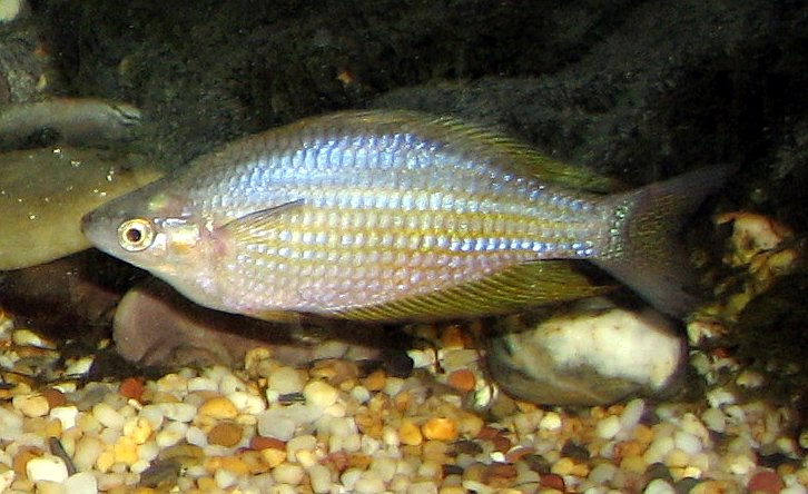 Male Eastern Rainbowfish (Melanotaenia splendida)